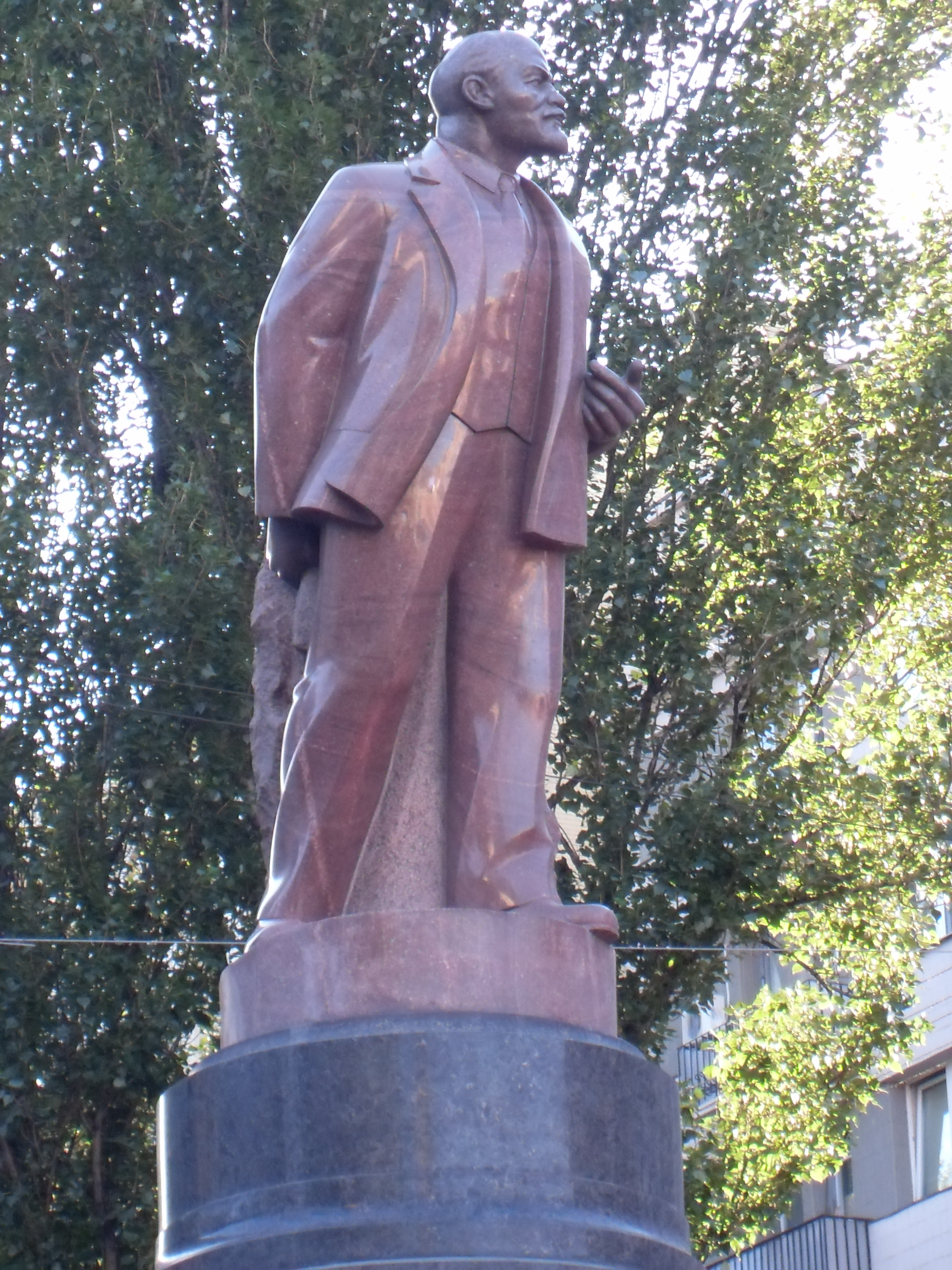 The only remaining Lenin monument in Kiev stands at the cross between the Khreshachatkyt str. (вул. Хрещатик) and Tarasa Shevchenka Blvd.(булю Тараса Шевченка). It is a modest brown marble monument next to the Bessarabsky Rynok (бессарабськы ринок), in the center of the city.